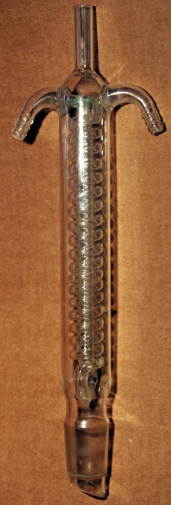 Dimroth Condenser with 29 mm connector for refluxing.